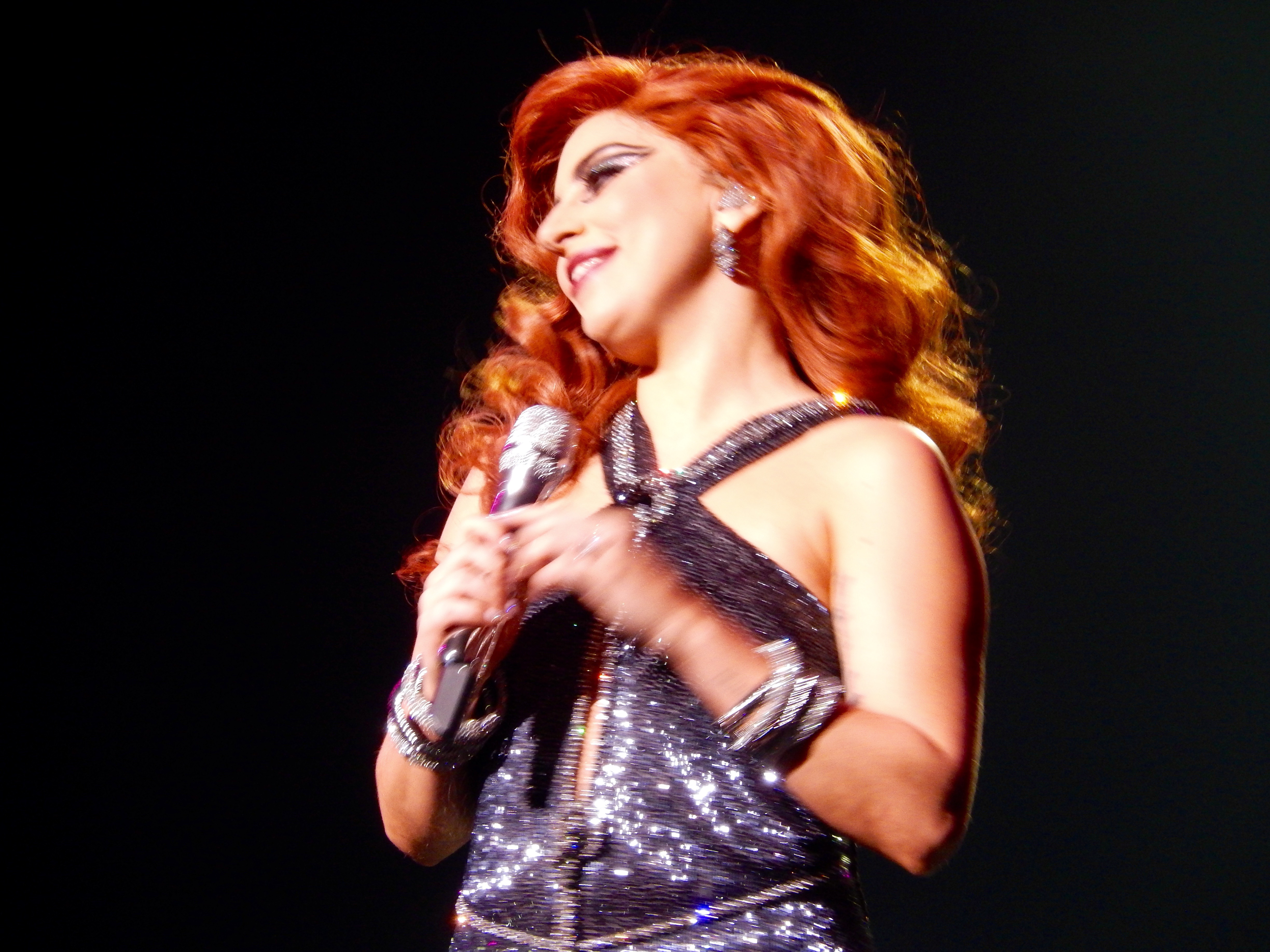 Cheek to Cheek Concert. The Axis. Planet Hollywood. Las Vegas. April 2015. Gaga and Bennett performing at Los Angeles for the Cheek to Cheek Tour